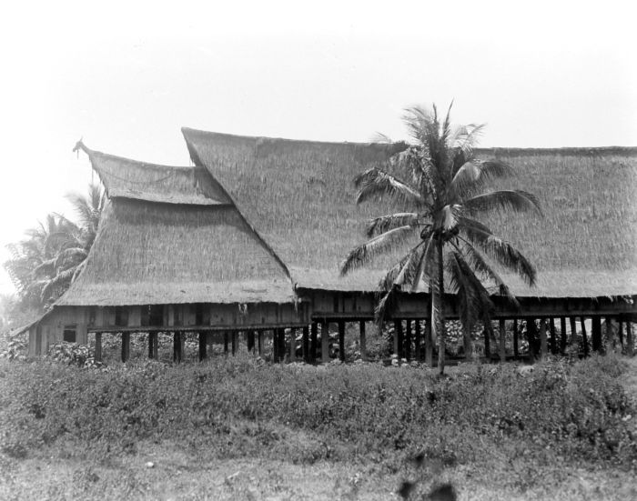 The house of the raja of Siantar